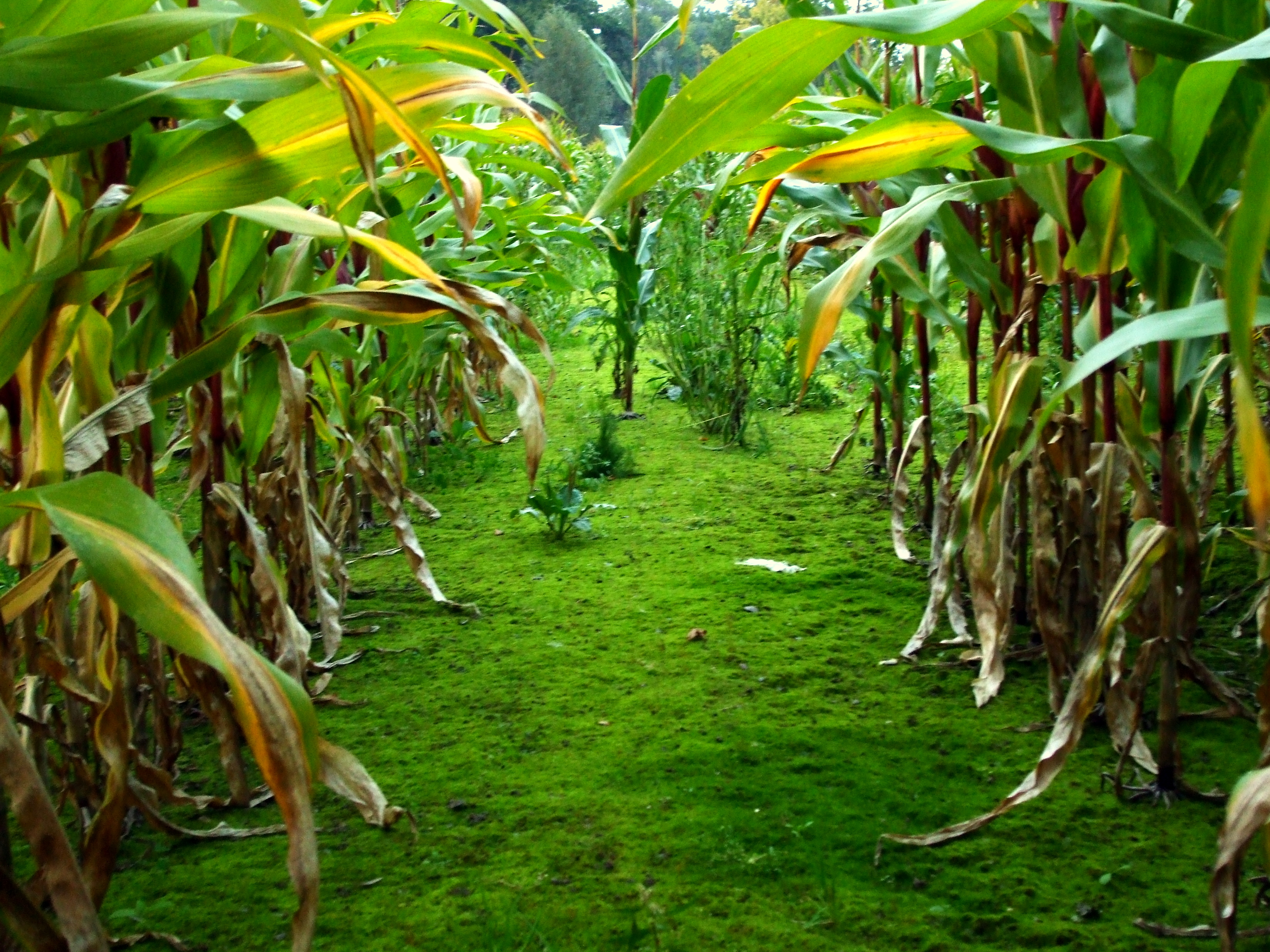 Corn field